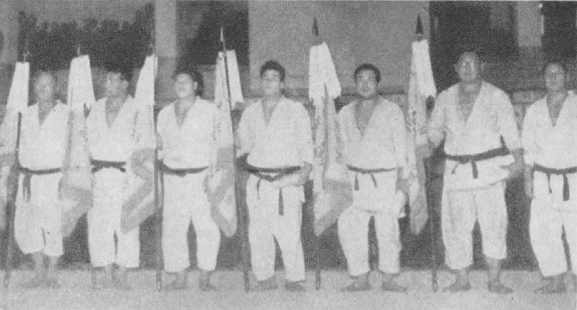 Winners of All-Japan Judo Championships in 1937. From left to right, Takamasa Takahashi, Kinsaku Sudō, Suekichi Tanaka, Masahiko Kimura, Kazuo Murakami, Lee, Shigeya Kakizaki.